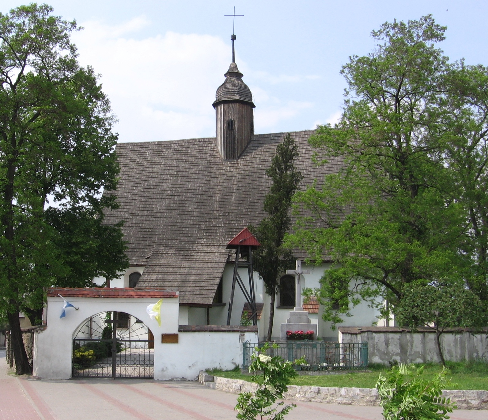 the church of Saint Cross Discovering in village Godzikowice near town Oława